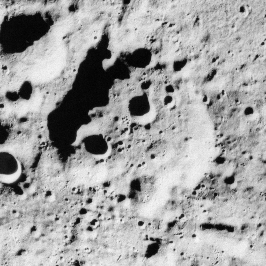 Slightly oblique view of Soddy crater, on the far side of the moon.